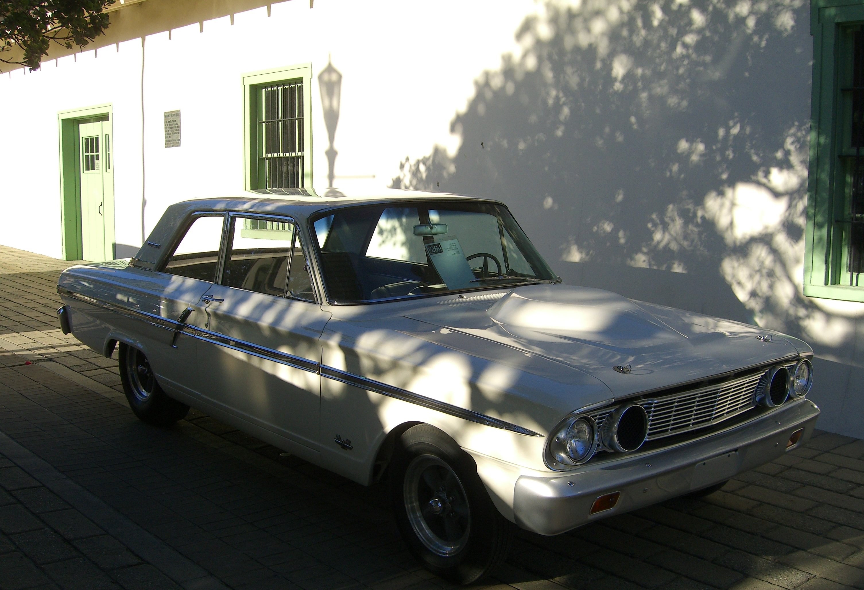 1964 Ford Thunderbolt 427 Base: Ford Fairlane